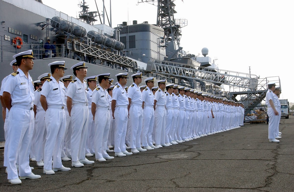 Japanese officers aboard the Japanese Maritime Self-Defense Force (JMSDF) training vessel JDS Kashima (TV 3508) stand in ranks after docking in Pearl Harbor, Hawaii. Three ships assigned to the JMSDF arrived in Pearl Harbor for a three-day port visit to broaden mutual understanding and friendship between the countries. Crew members assigned to the ships will lay wreaths at the USS Arizona Memorial, Makiki Japanese Naval Graveyard and the National Memorial Cemetery of the Pacific.